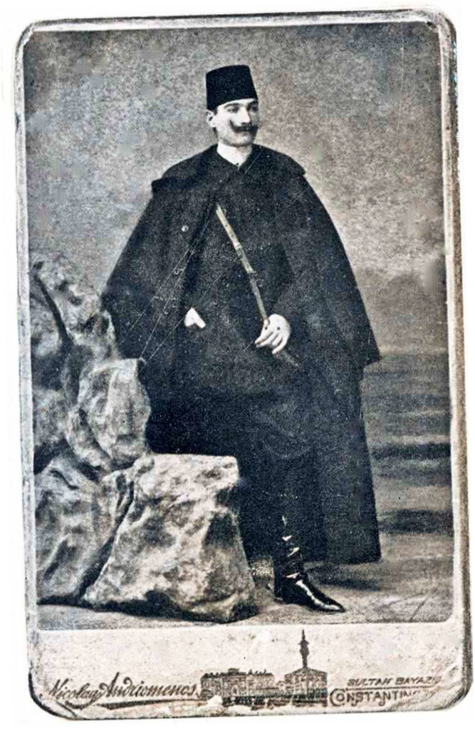 Kemal Atatürk (or alternatively written as Kamâl Atatürk, Mustafa Kemal Pasha until 1934, commonly referred to as Mustafa Kemal Atatürk; 1881 – 10 November 1938) was a Turkish field marshal, revolutionary statesman, author, and the founding father of the Republic of Turkey, serving as its first President from 1923 until his death in 1938. He undertook sweeping progressive reforms, which modernized Turkey into a secular, industrial nation. Ideologically a secularist and nationalist, his policies and theories became known as Kemalism. Due to his military and political accomplishments, Atatürk is regarded as one of the most important political leaders of the 20th century.